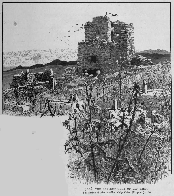 Gibeah 1880